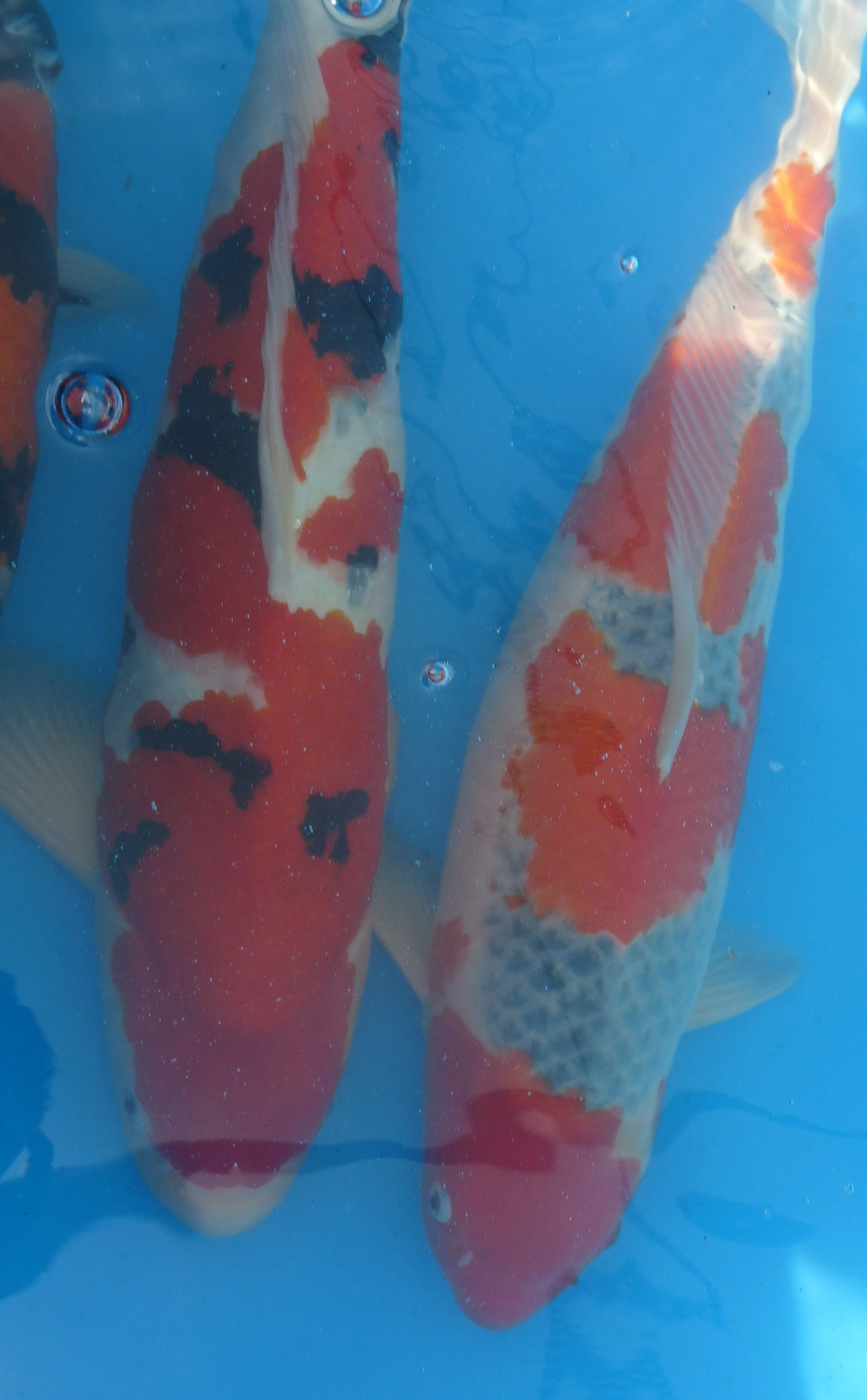 A Sanke and a Goshiki (Koi)